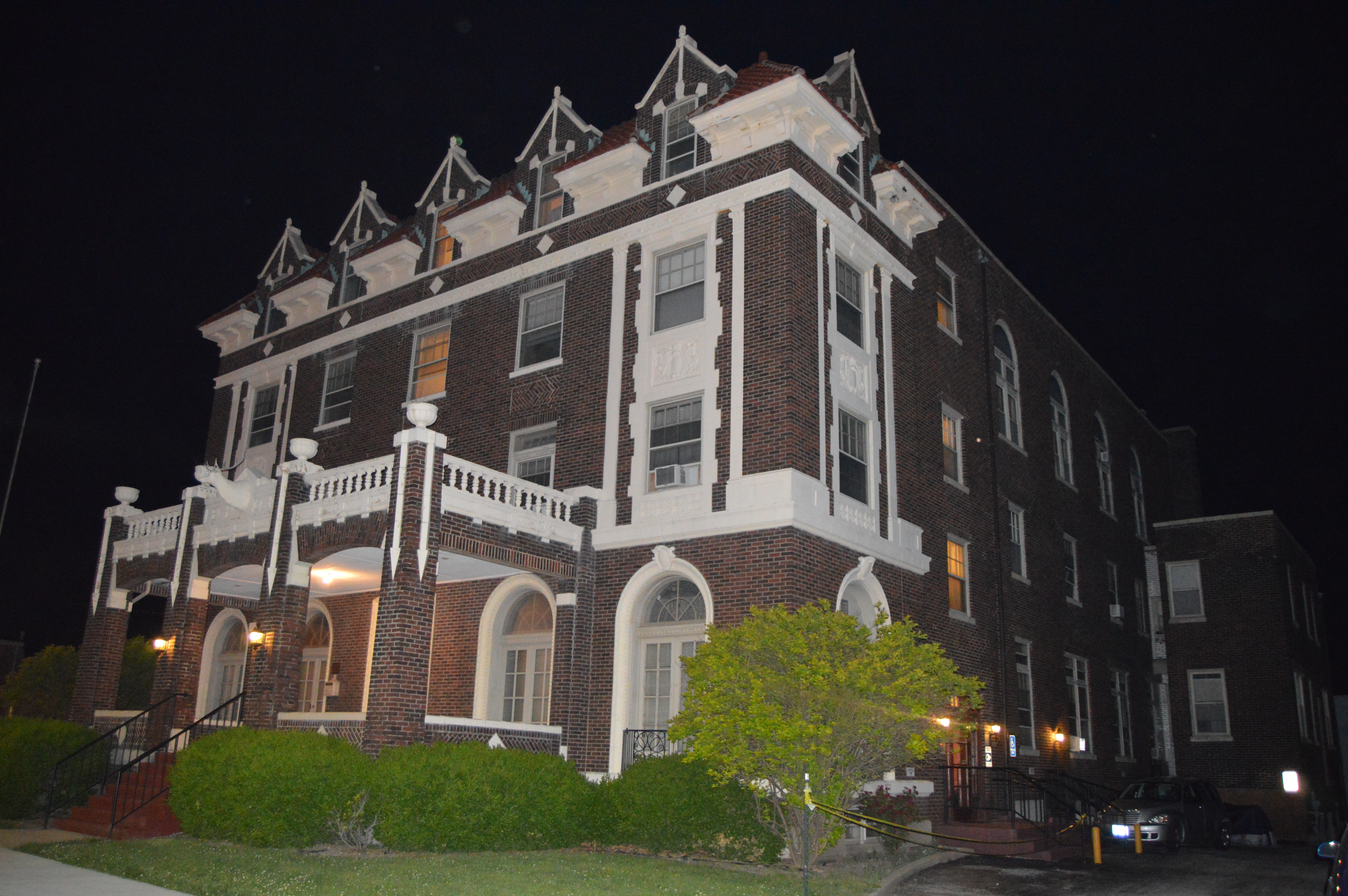 Southern side and front of the Litchfield Elks Lodge No. 654, located at 424 N. Monroe Street along Illinois Route 16 in Litchfield, Illinois, United States. Built in 1923, it is listed on the National Register of Historic Places.